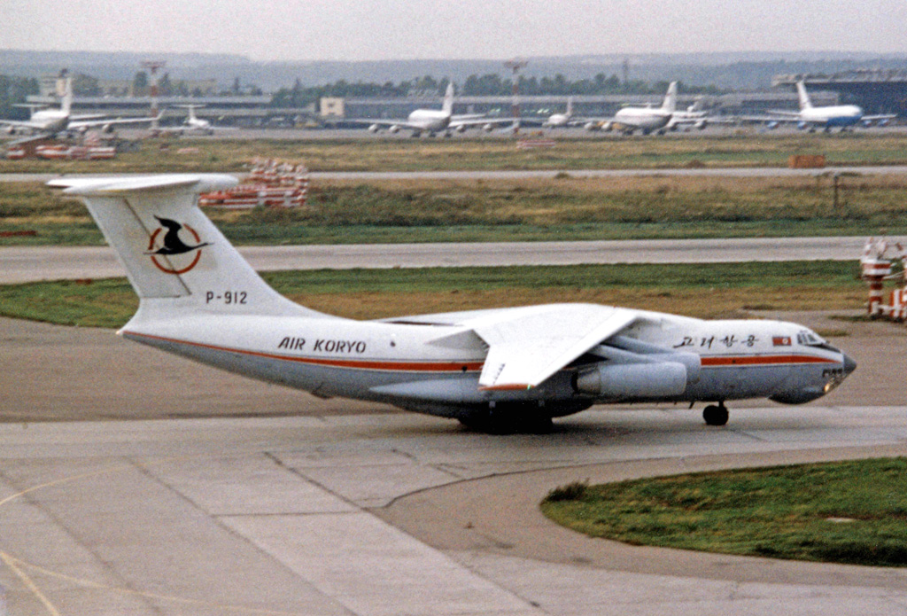 Ilyushin Il-76MD P-912 of Air Koryo, North Korea, at Moscow Sheremetyevo airport in 1994.